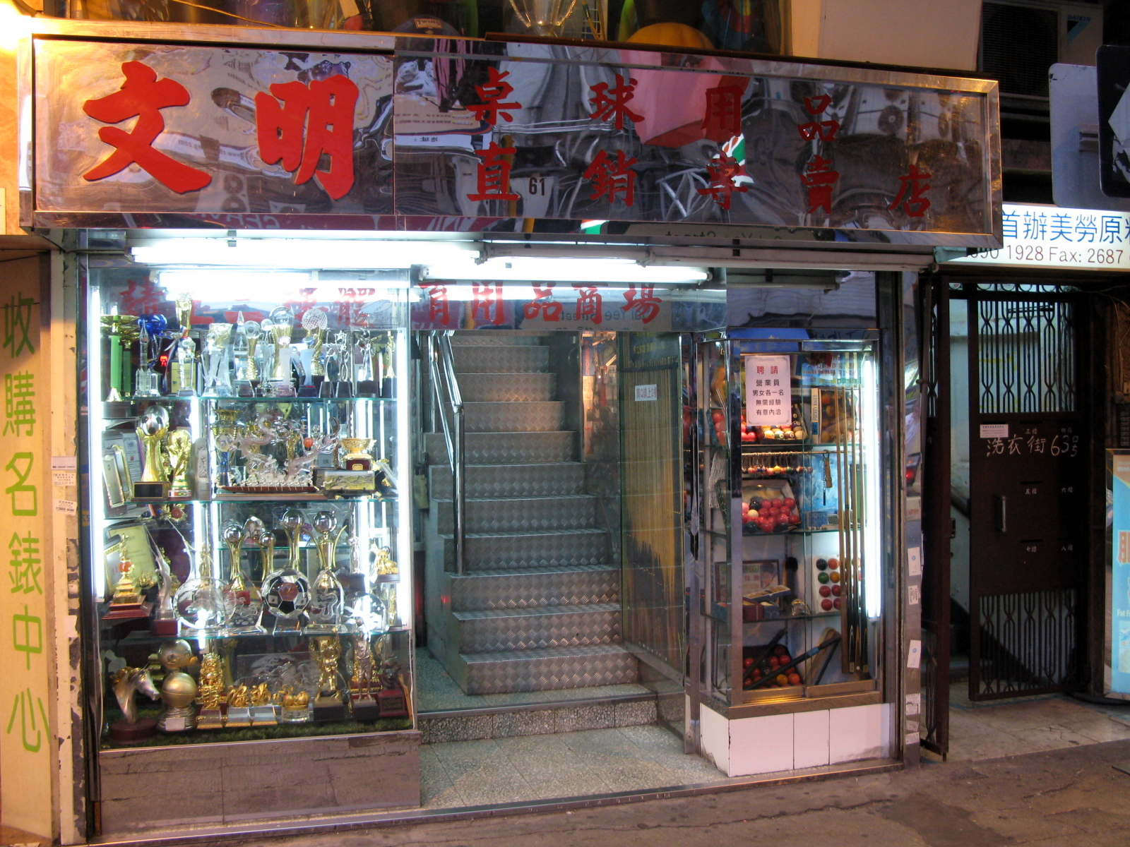 Manming Sporting Goods Store in Mong Kok